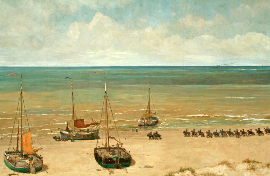 Panorama Mesdag